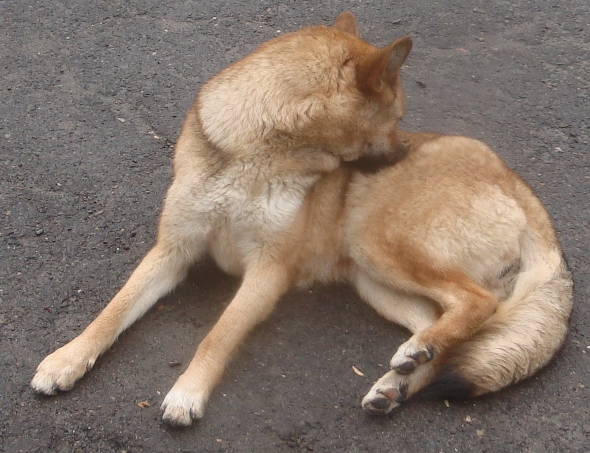 Mixed breed dog infested by pulicidae